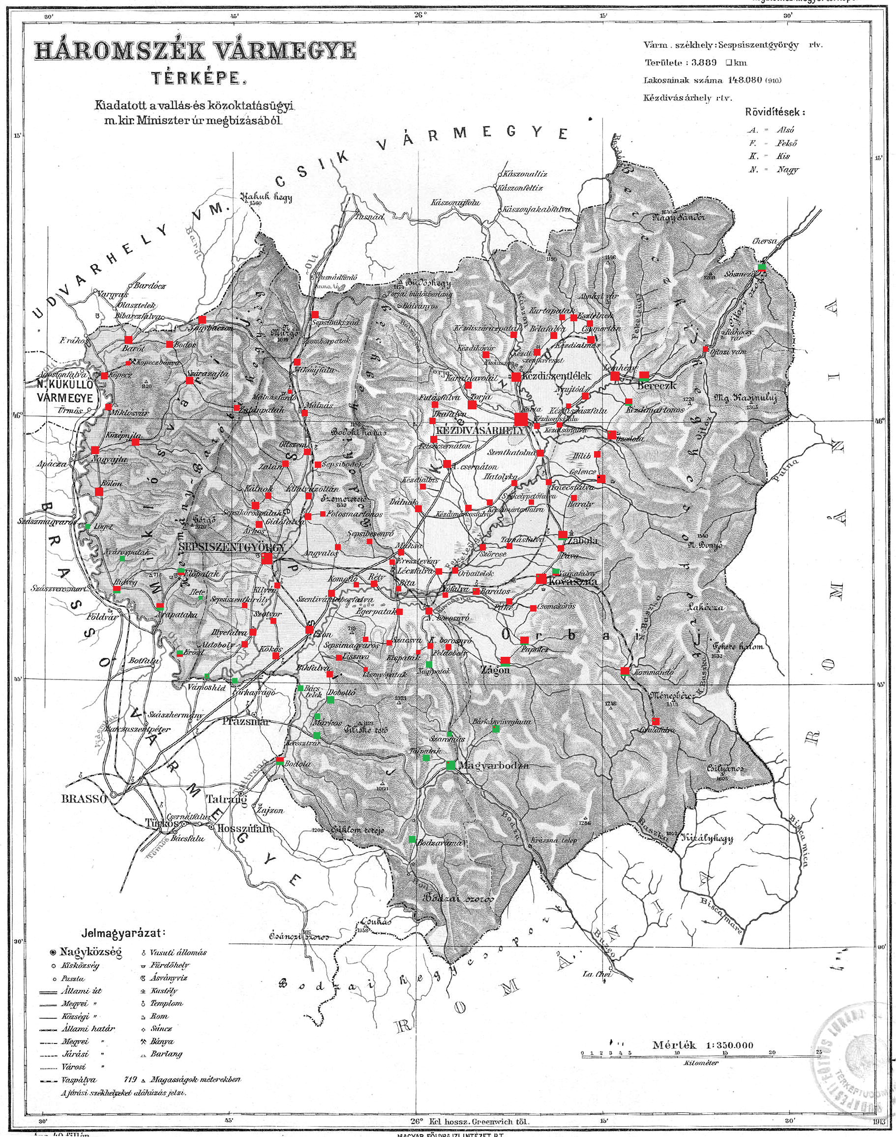 Ethnic map of the county (with data of the 1910 census). Key: red - Hungarians; dark green - Romanians; pink - Germans; black - Roma. Coloured dots in plain rectangles imply the presence of smaller minority populations (generally more than 100 people or 10%). Multicoloured rectangles imply cities and villages with multi-ethnic populations with the order of the stripes following the ethnic composition of the settlement.